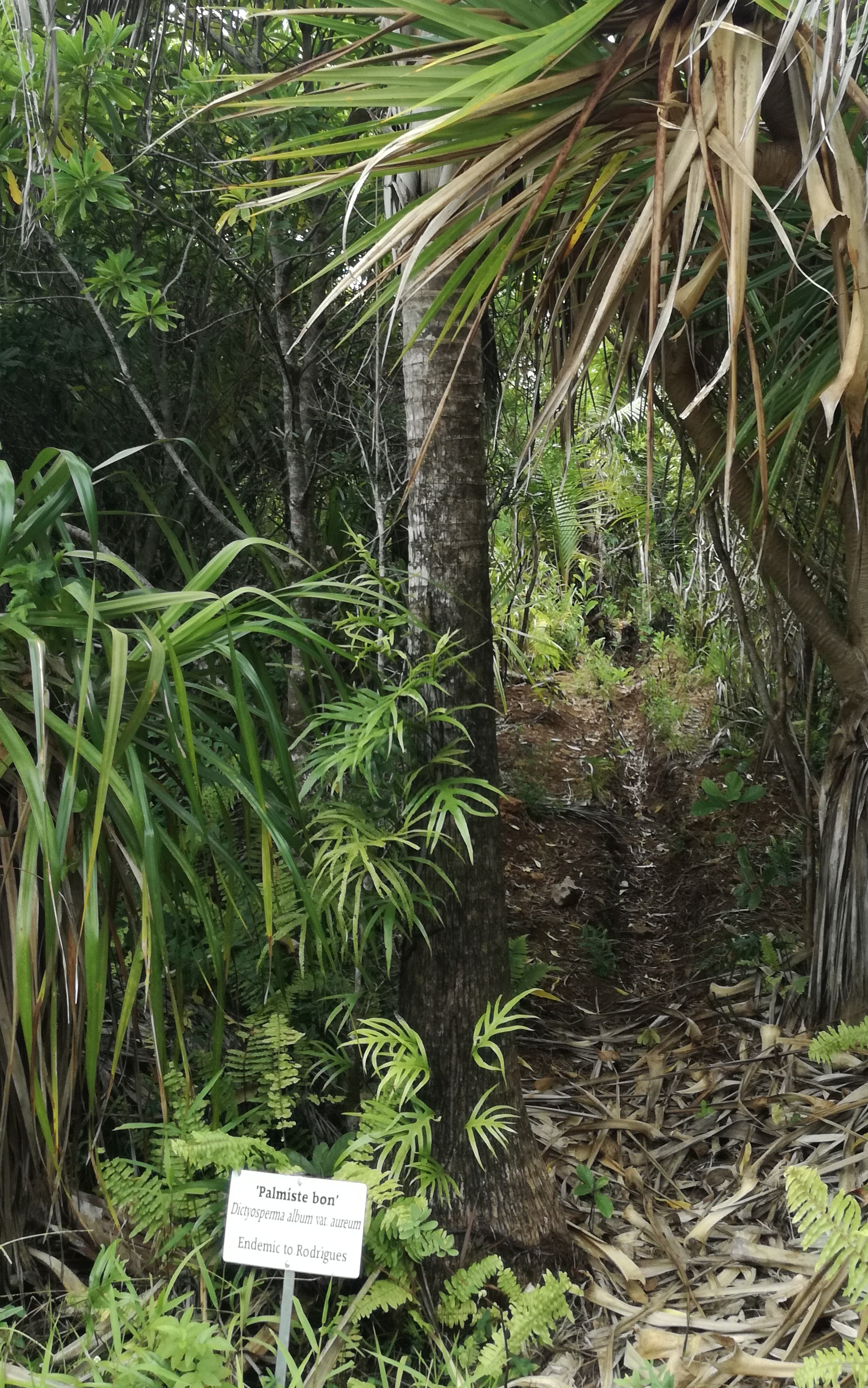 Dictyosperma album var aureum - Grande Montagne